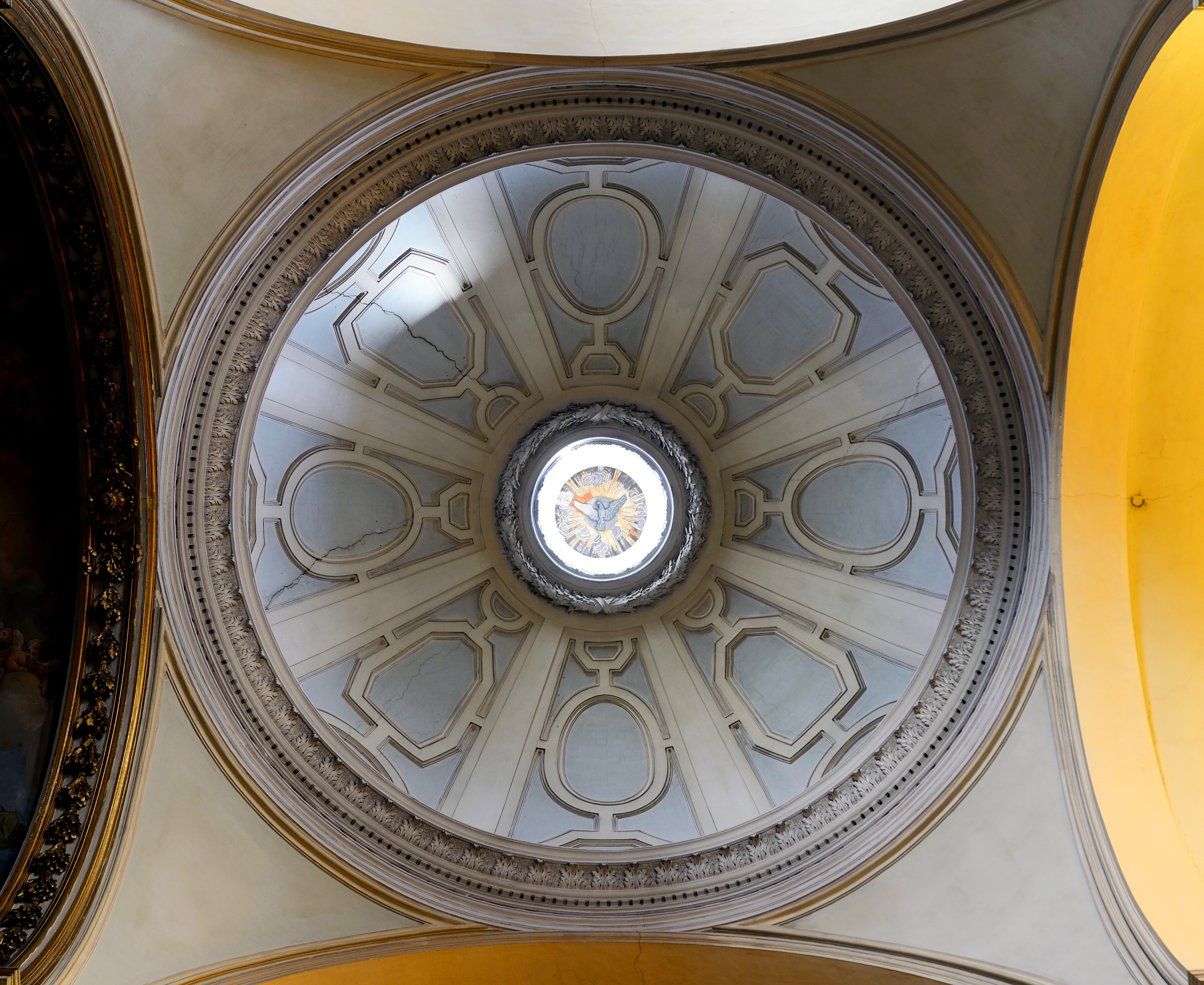 Dome of San Paolo alla Regola (Rome)